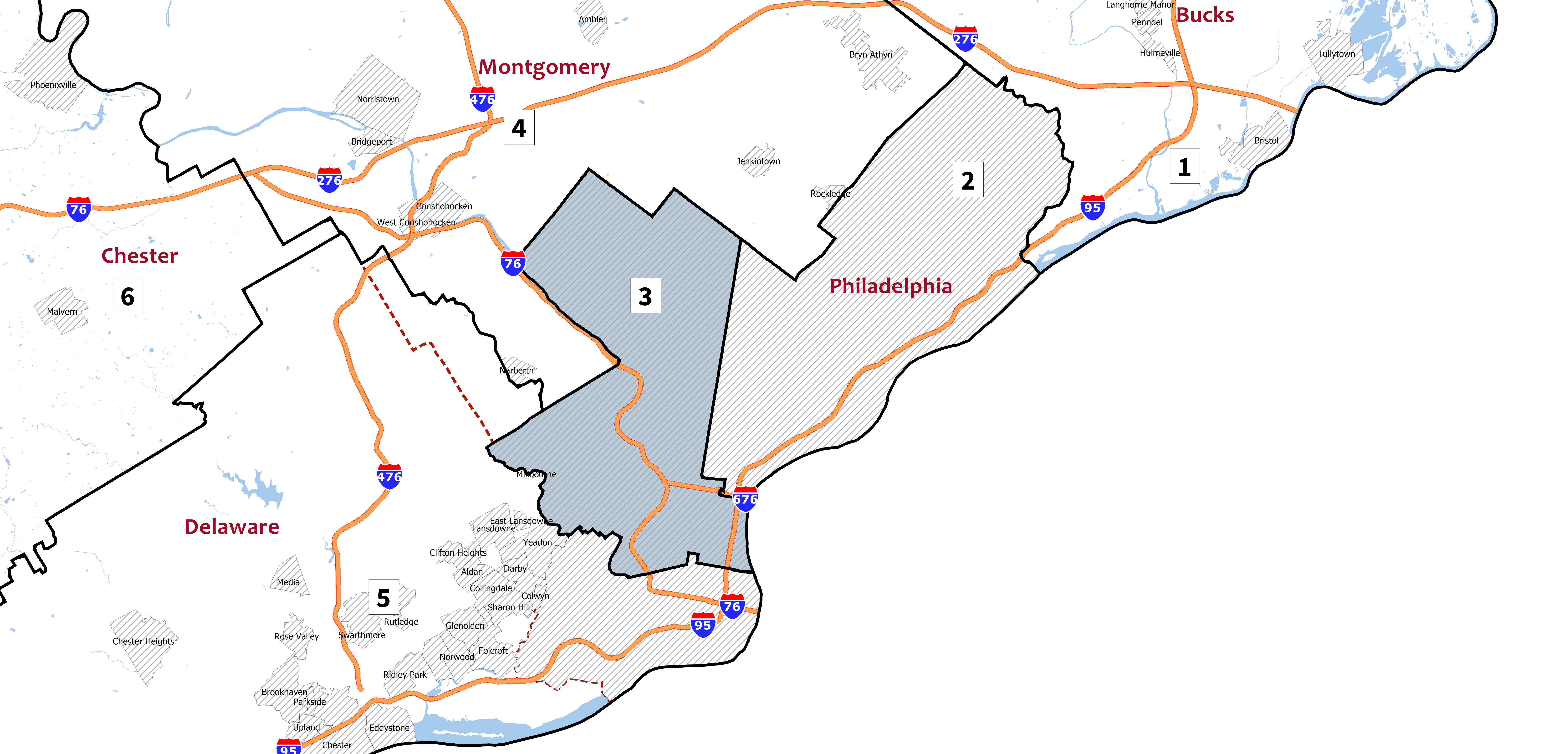 Pennsylvania congressional district 3